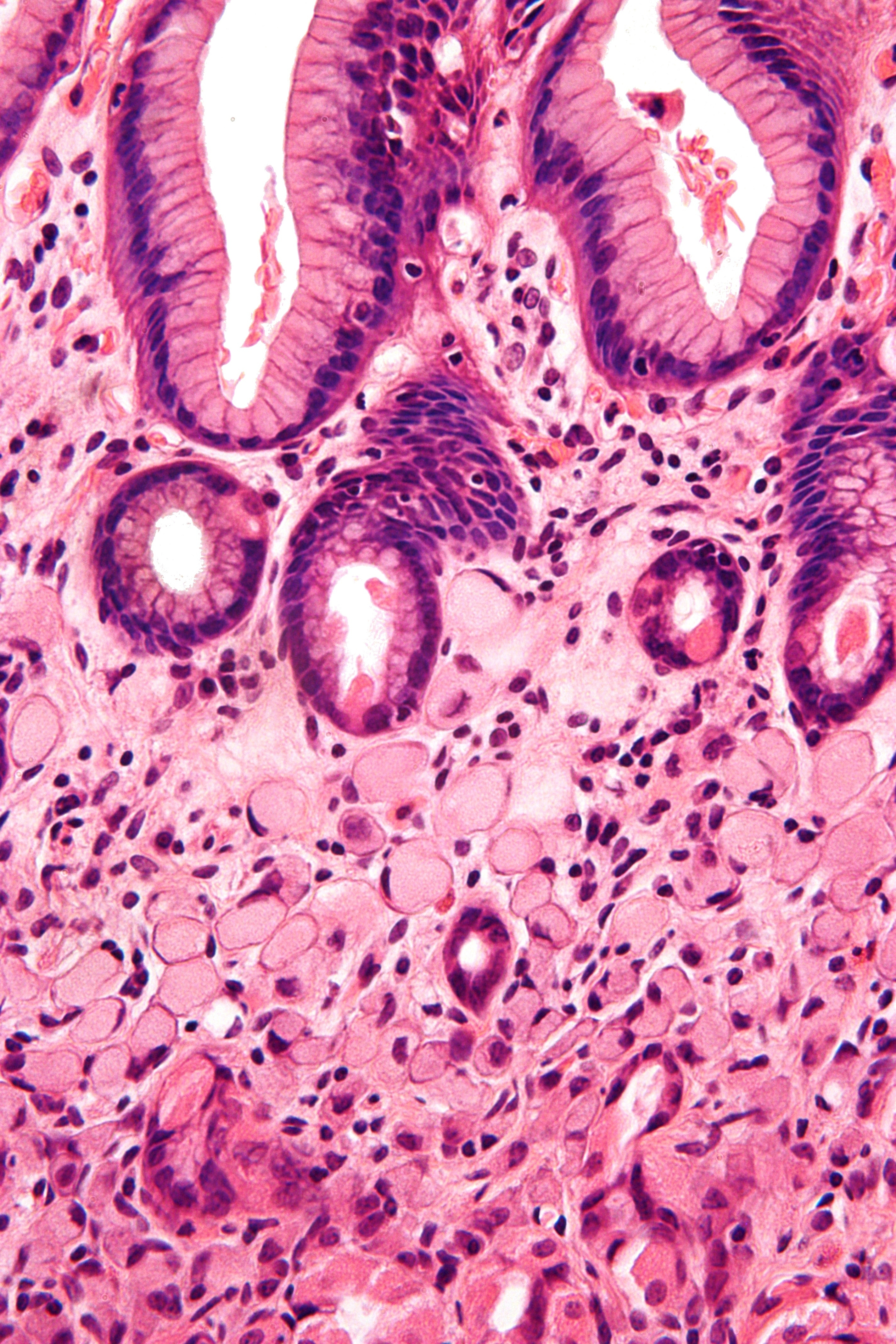 Very high magnification micrograph of a signet ring cell carcinoma. Stomach. H&E stain. Related images Low mag. Intermed. mag. High mag. Very high mag.